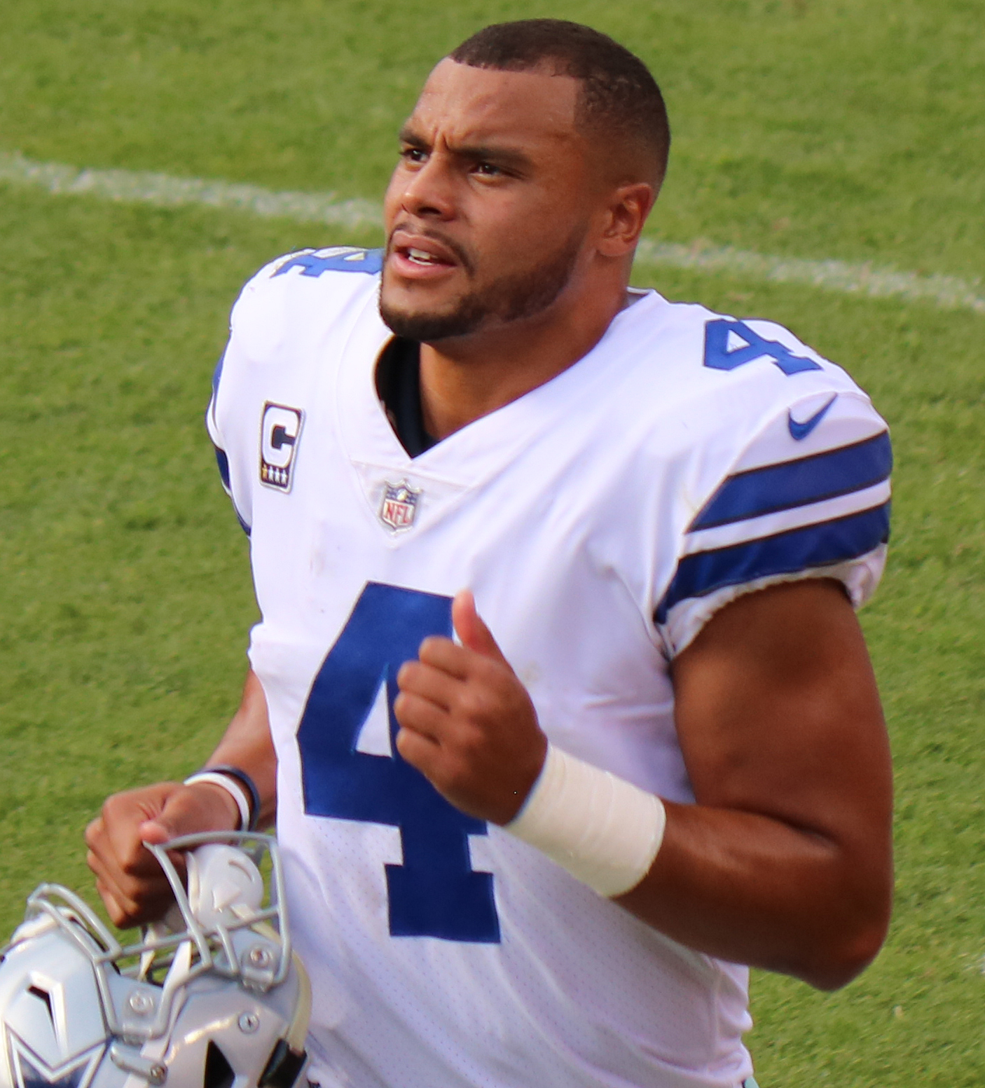 Dak Prescott, a player on the National Football League.